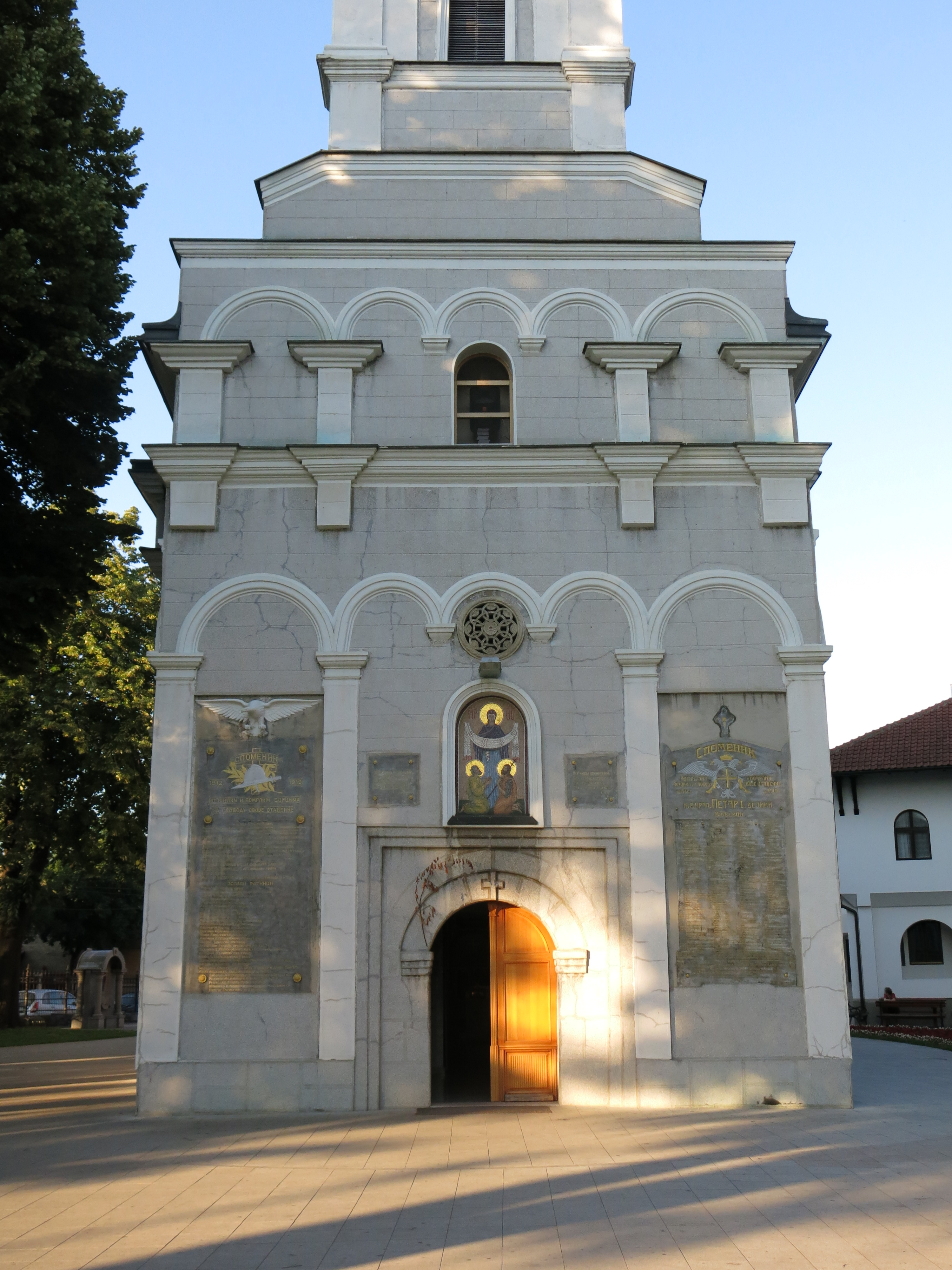 Valjevo, Church of Virgin Mary